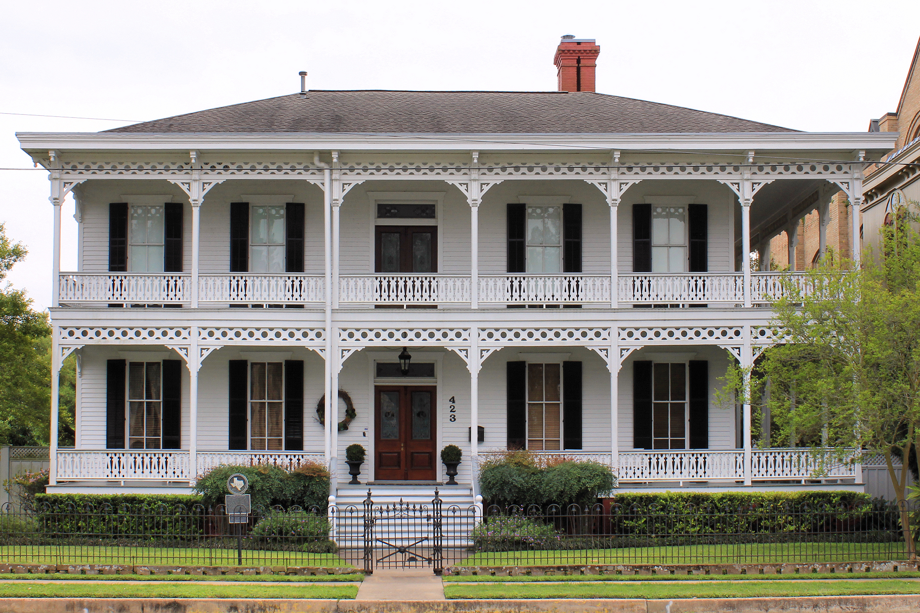 The Stafford-Miller House in Columbus, Texas, United States was built in 1886. The house was designated a Recorded Texas Historic Landmark in 1974.